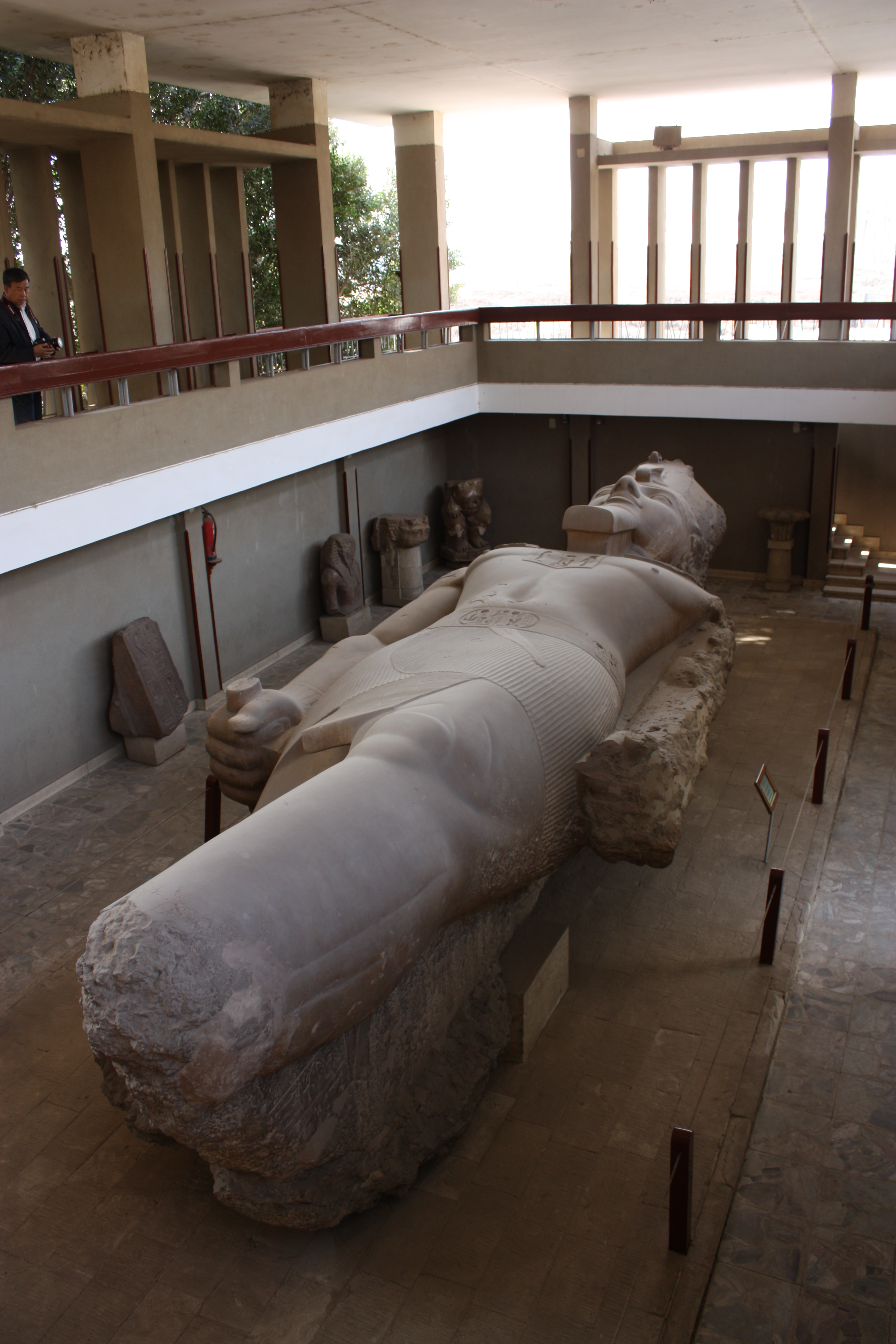 Ramses II colossal statue in the Memphis open air museum in Egypt.